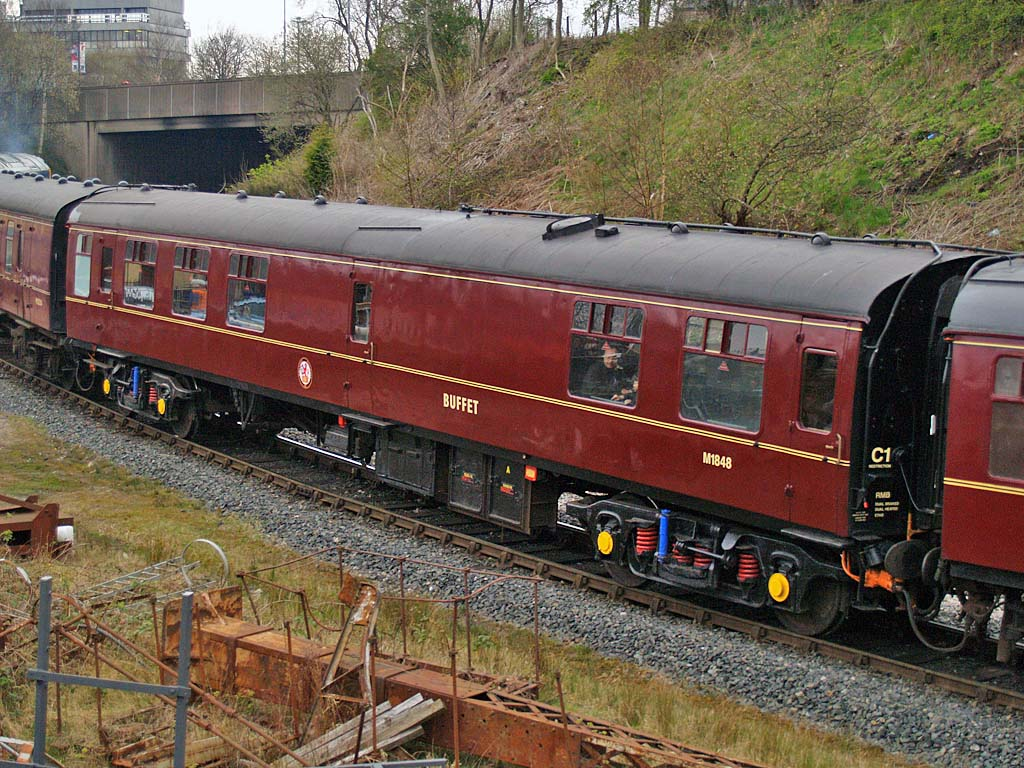 British Rail Mark 1 Restaurant Miniature Buffet M1848 on the East Lancashire Railway. Saturday 19th April 2008